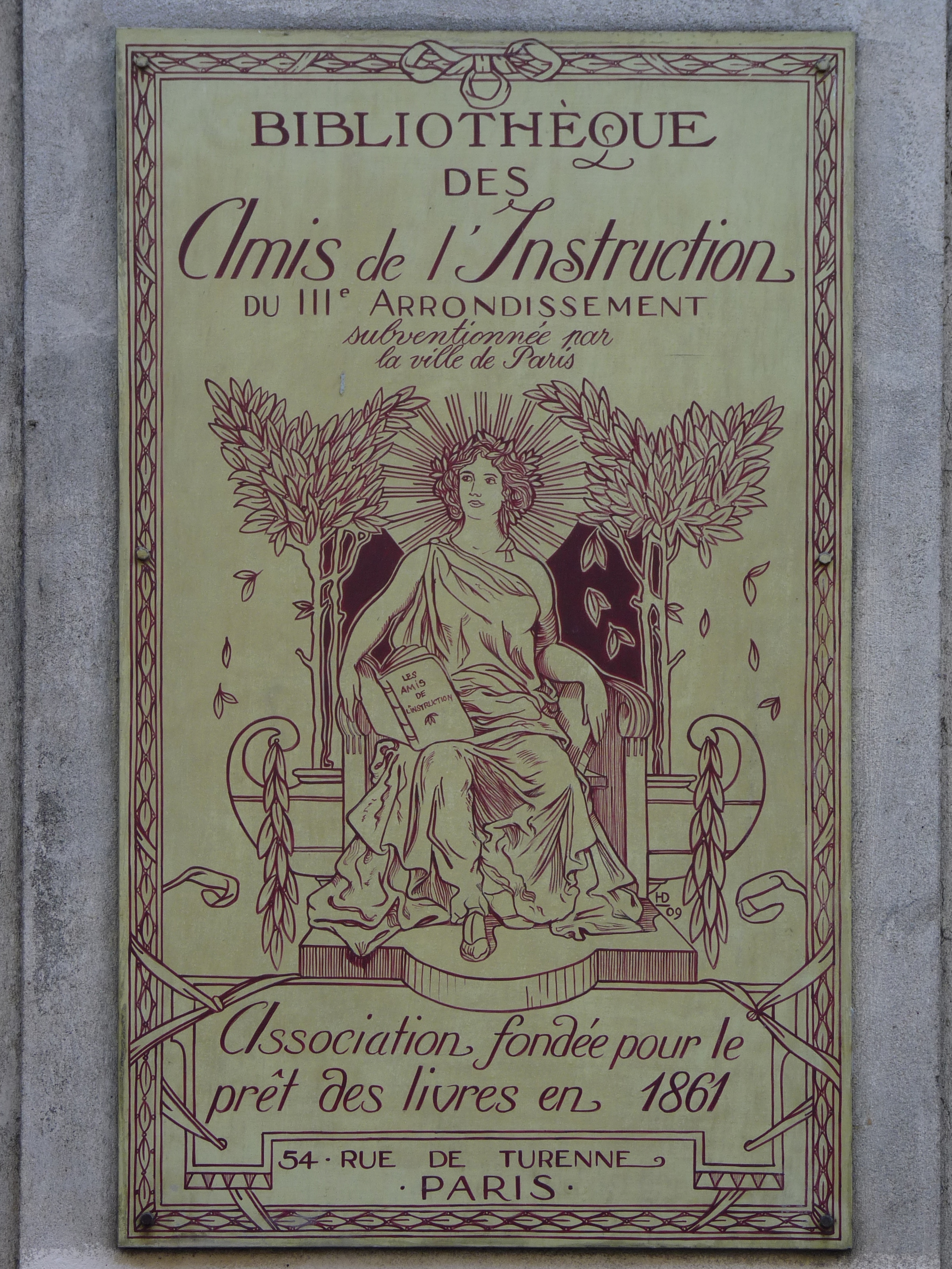 Sign seen in the rue de Turenne in Paris